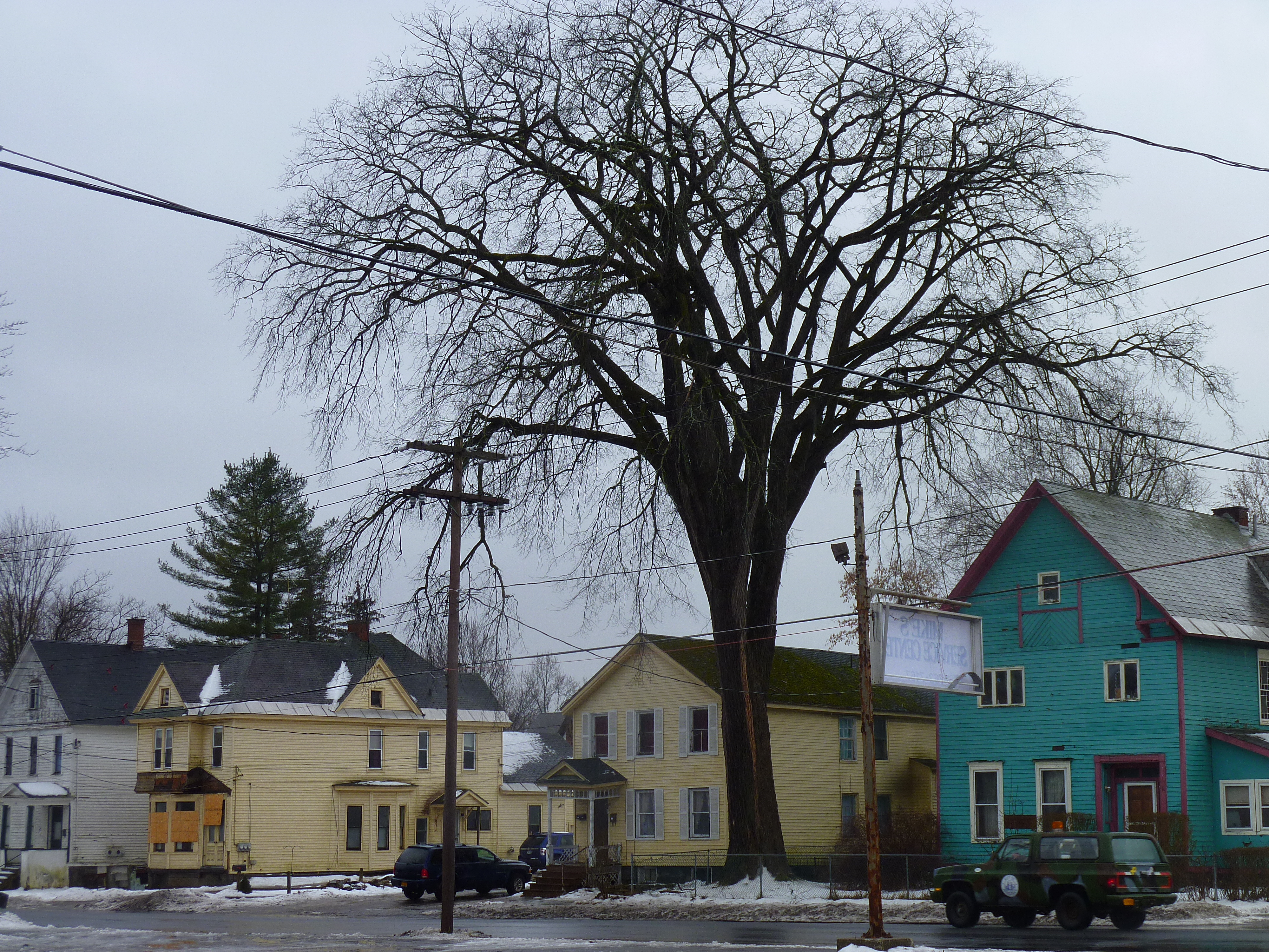 Large elm in Johnstown, NY. 189 inch circumference and 110 feet tall.